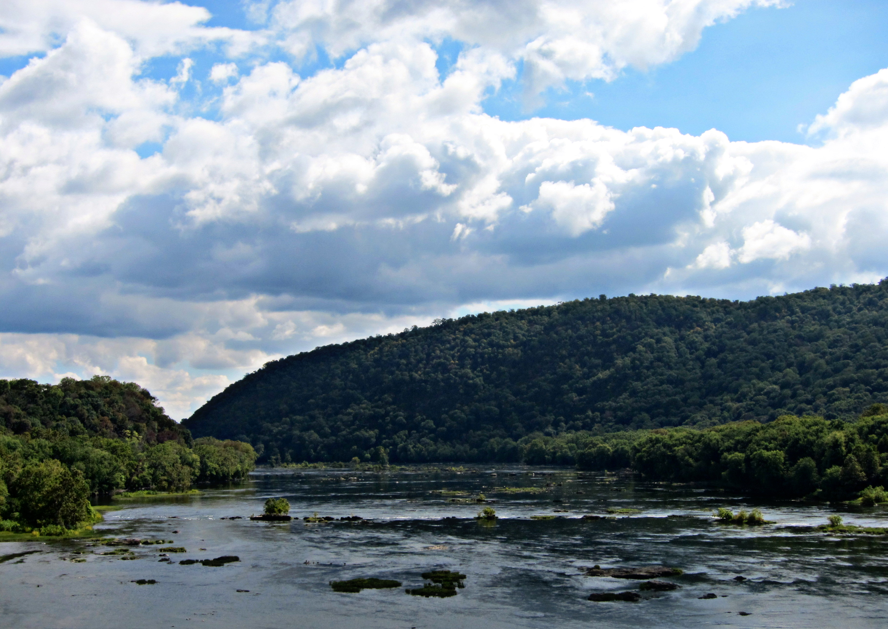 Driving across the Shenandoah River on US 340 in Harpers Ferry, West Virginia.